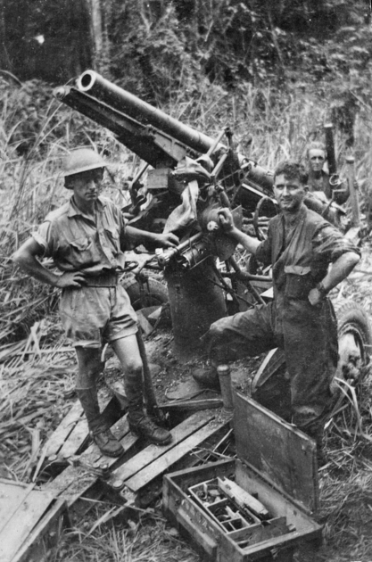 A captured Japanese Type 88 75mm Field Anti-Aircraft gun in the Buna area, Papua, New Guinea.